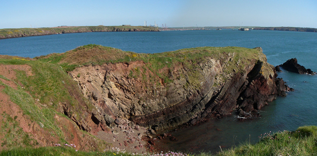 Little Castle Head. The headland called Little Castle head. The 'lump' left of centre is the 'Fort'.